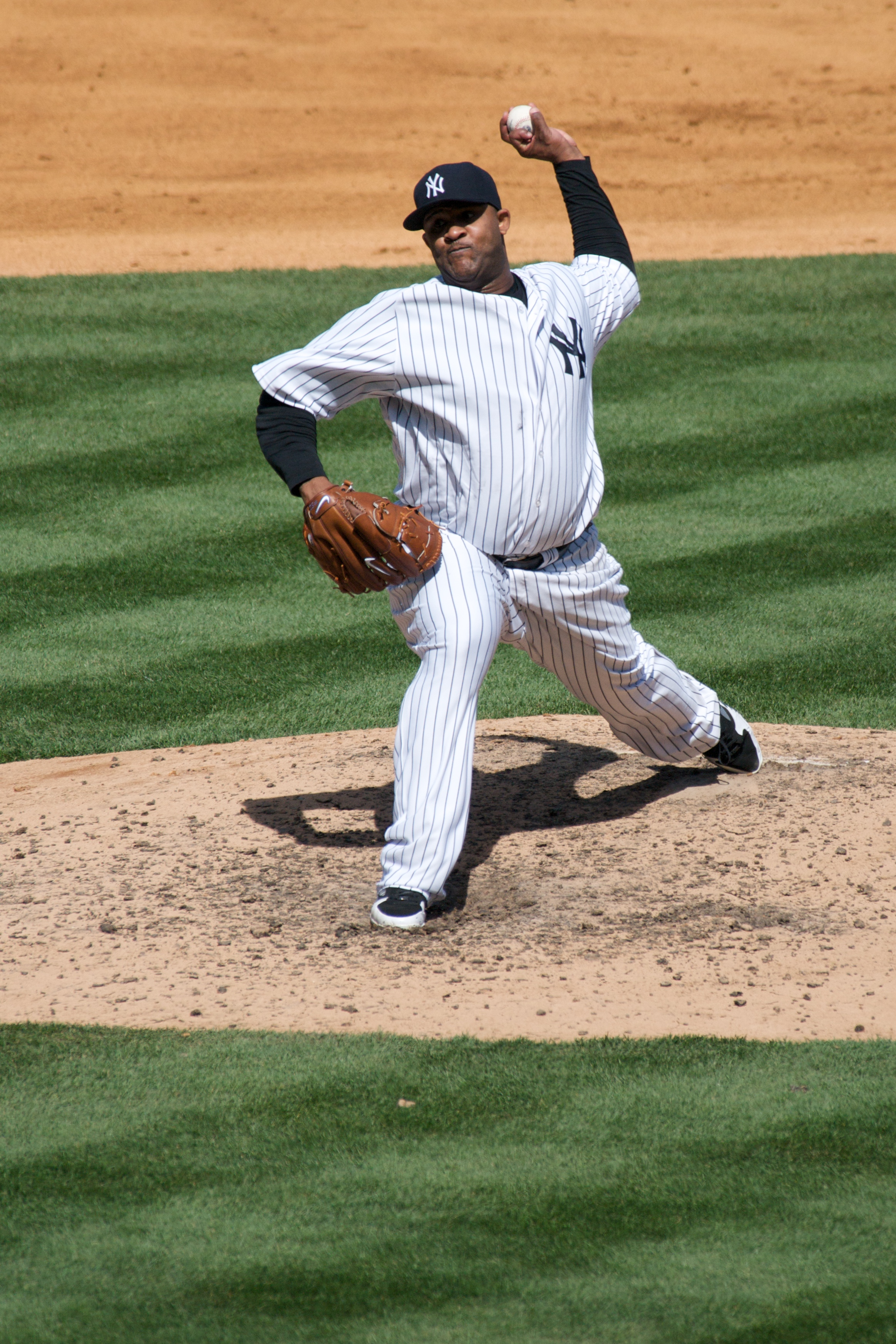 CC Sabathia